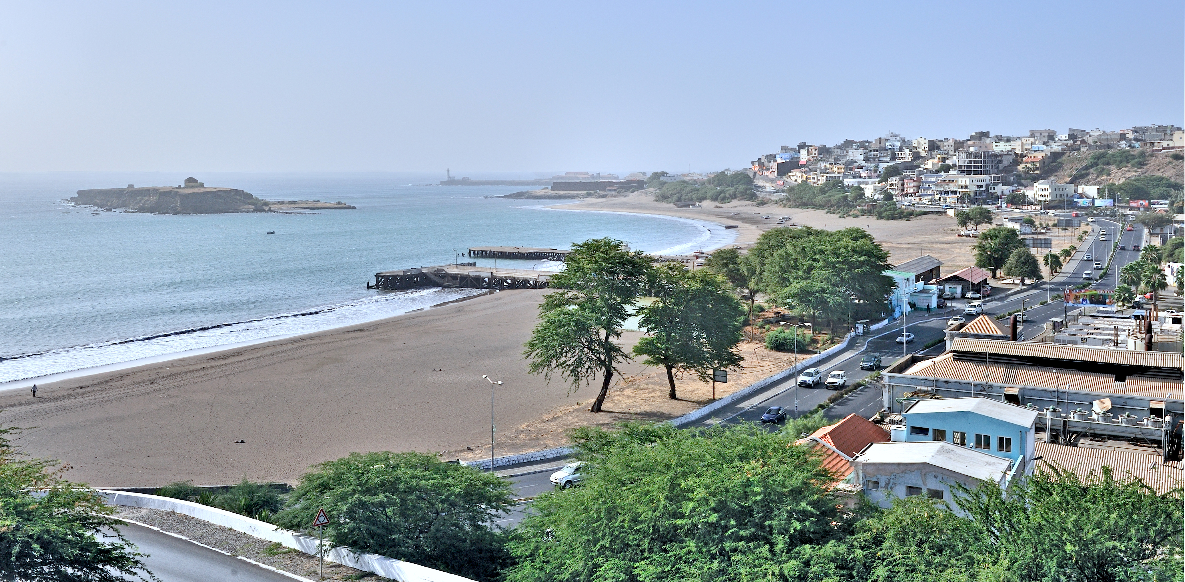 Praia, capital of Cape Verde: coastline with the island of Santa Maria.